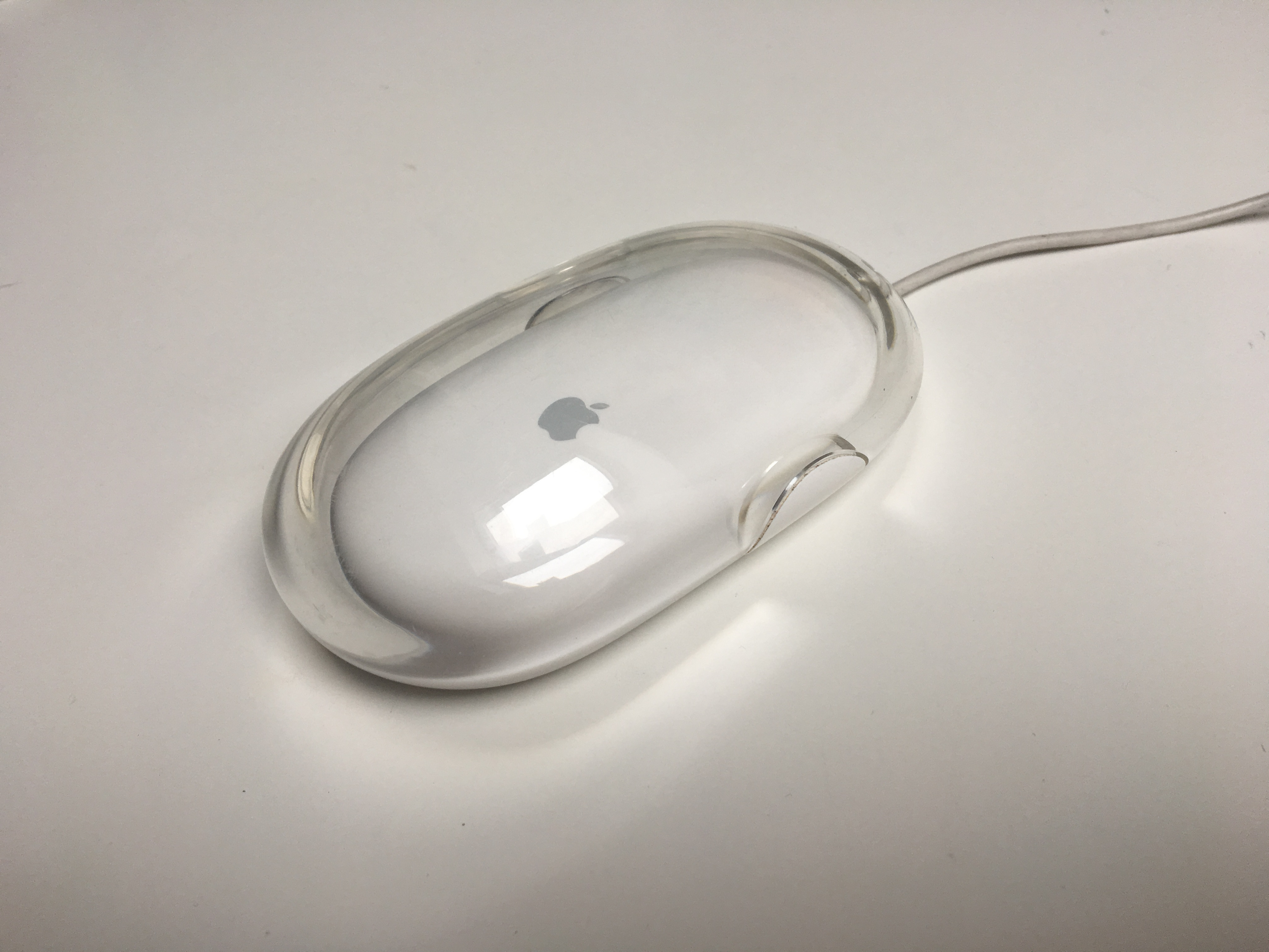 Apple Pro Mouse, originally shipped with an iMac G4